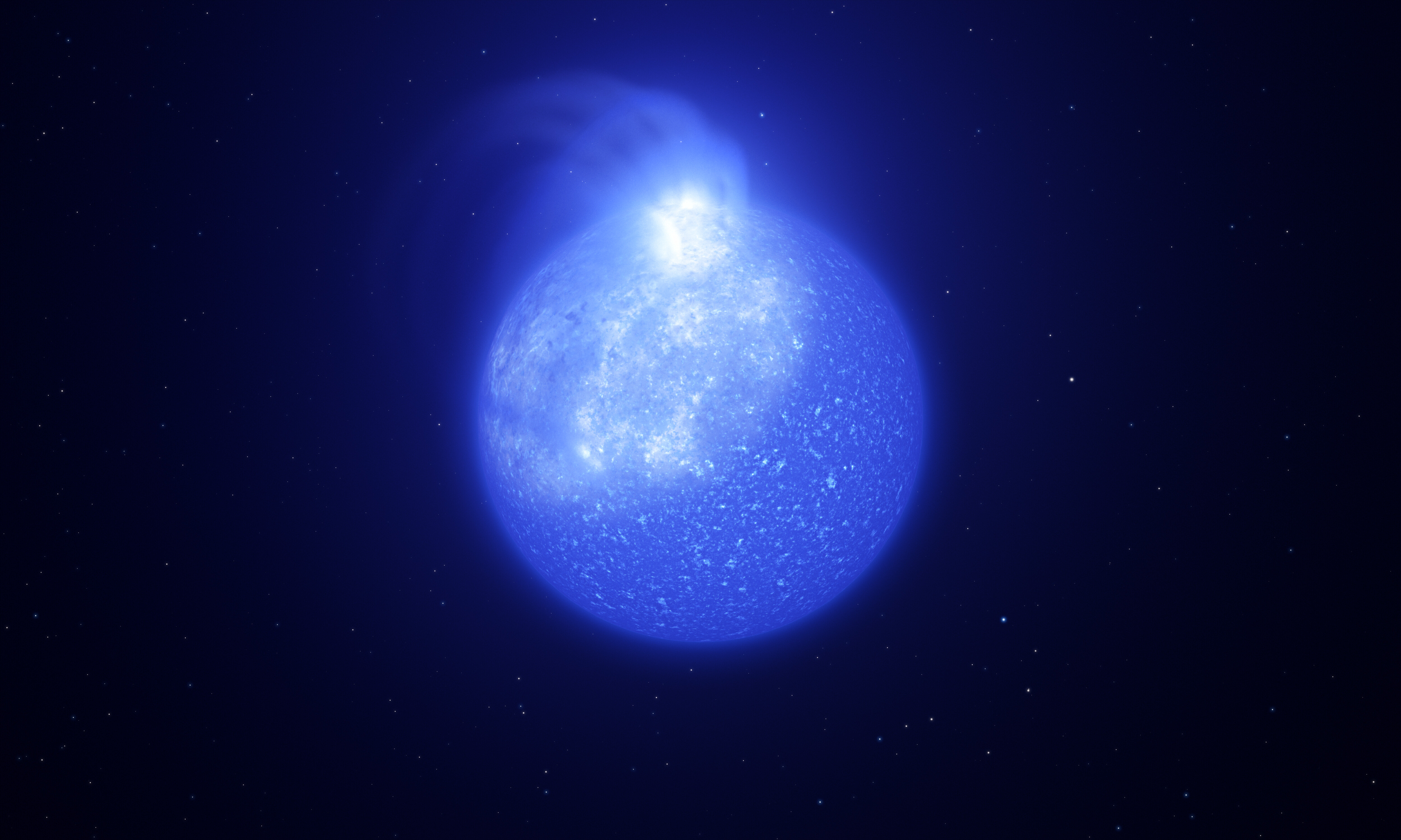 Astronomers using ESO telescopes have discovered giant spots on the surface of extremely hot stars hidden in stellar clusters, called extreme horizontal branch stars. This image shows an artist’s impression of what one of these stars, and its giant whitish spot, might look like. The spot is bright, takes up a quarter of the star’s surface and is caused by magnetic fields. As the star rotates, the spot on its surface comes and goes, causing visible changes in brightness.